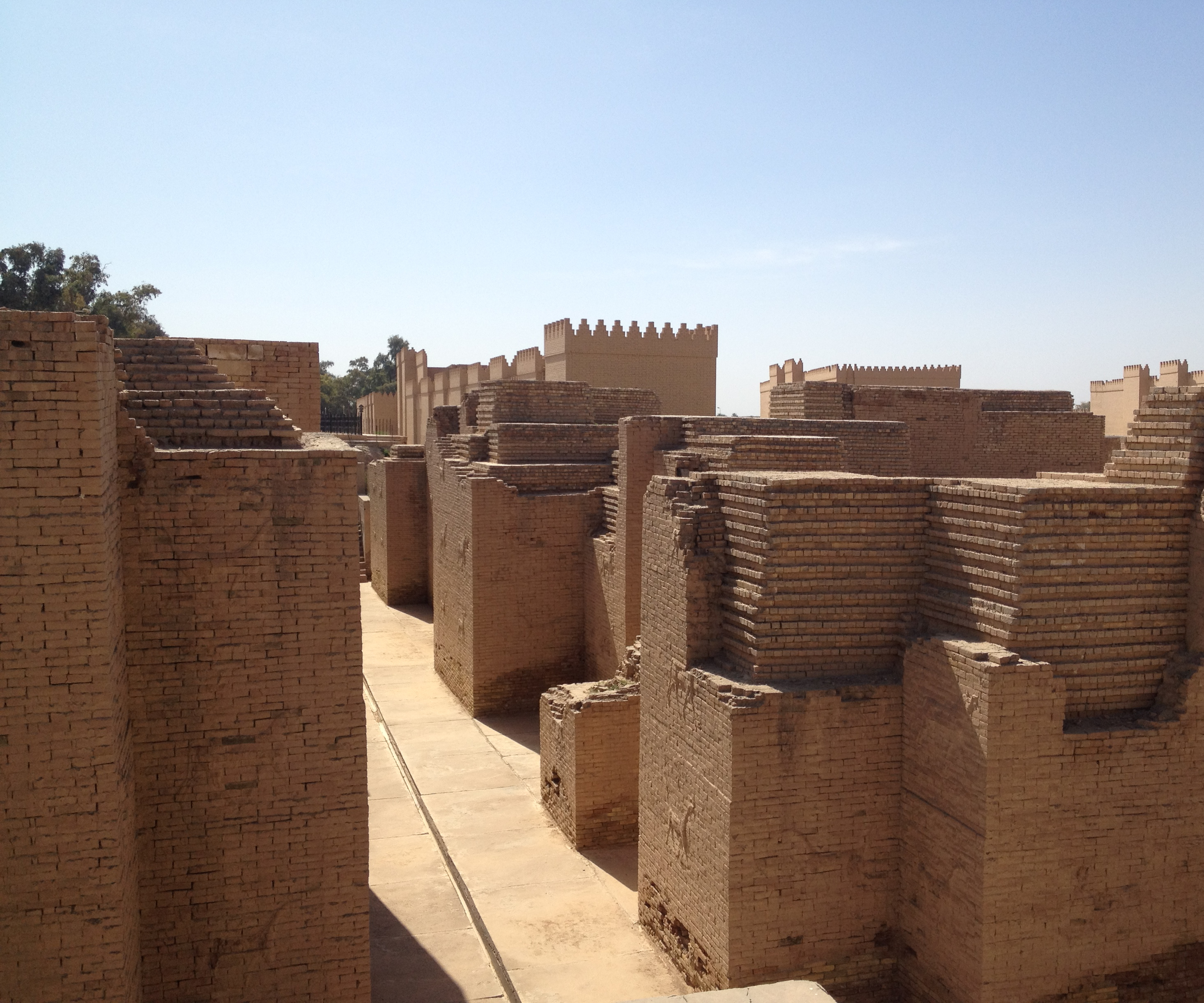 Babylon አማርኛ: ባቢሎን Ænglisc: Babilōn